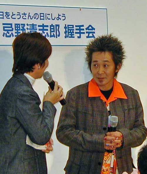 Kiyoshiro Imawano getting interviewed at an in store even at Takashimaya Department Store, Shinjuku, Tokyo, Japan